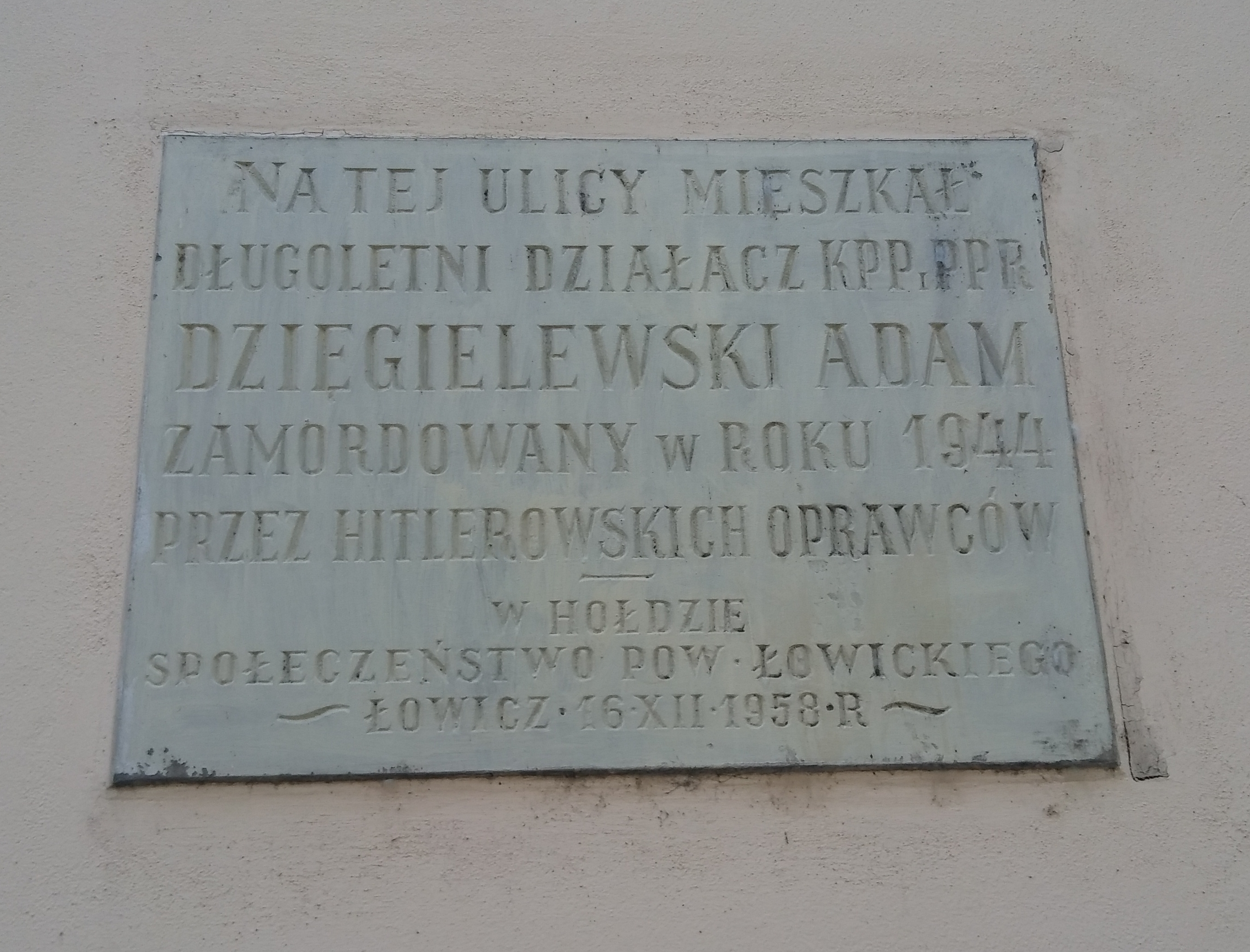 Plaque in Łowicz